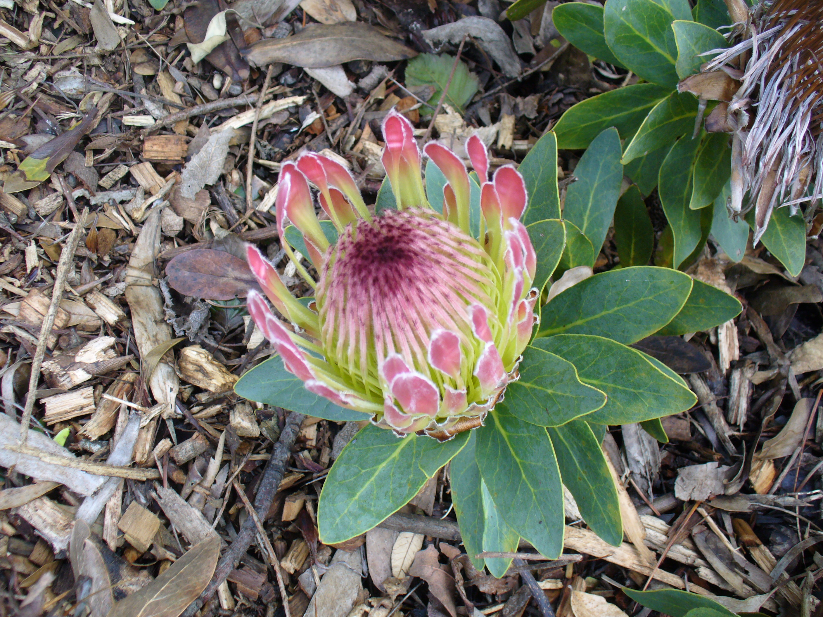 Protea roupelliae flower